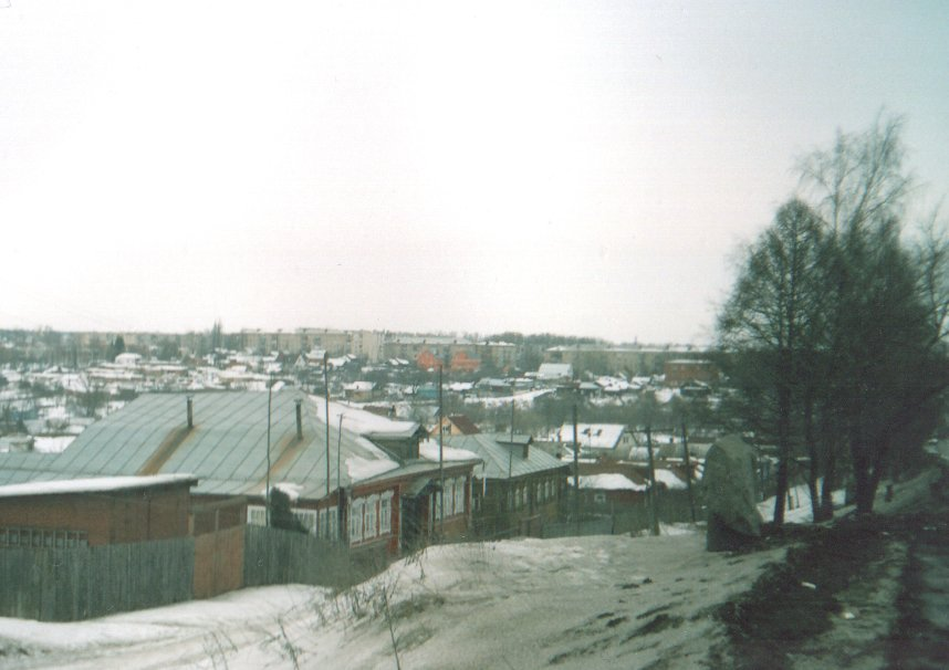 View of Lakinsk Вид на Лакинск с Ундольской горы